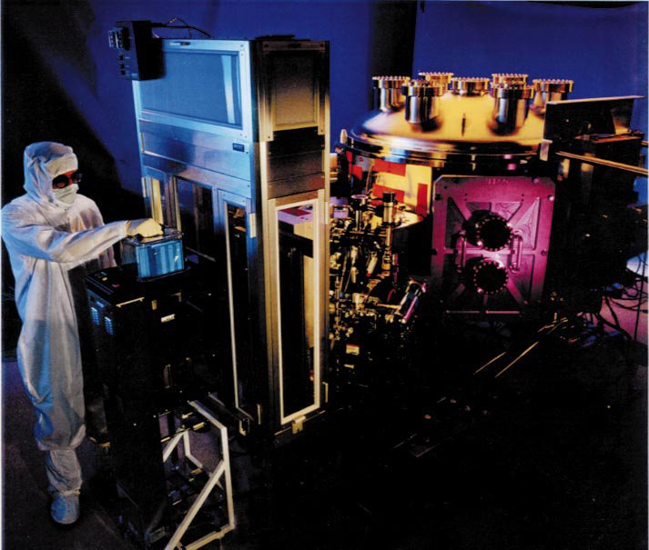 EUVL tool, that deposits virtually defect-free, ultra-thin films on integrated circuits.